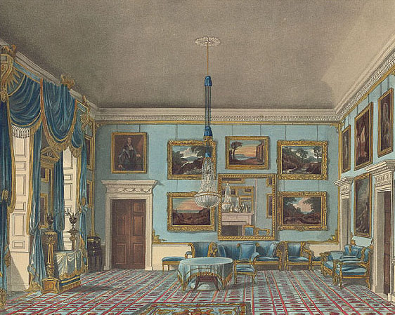 A view of the Blue Velvet Room at Buckingham House, later rebuilt as Buckingham Palace